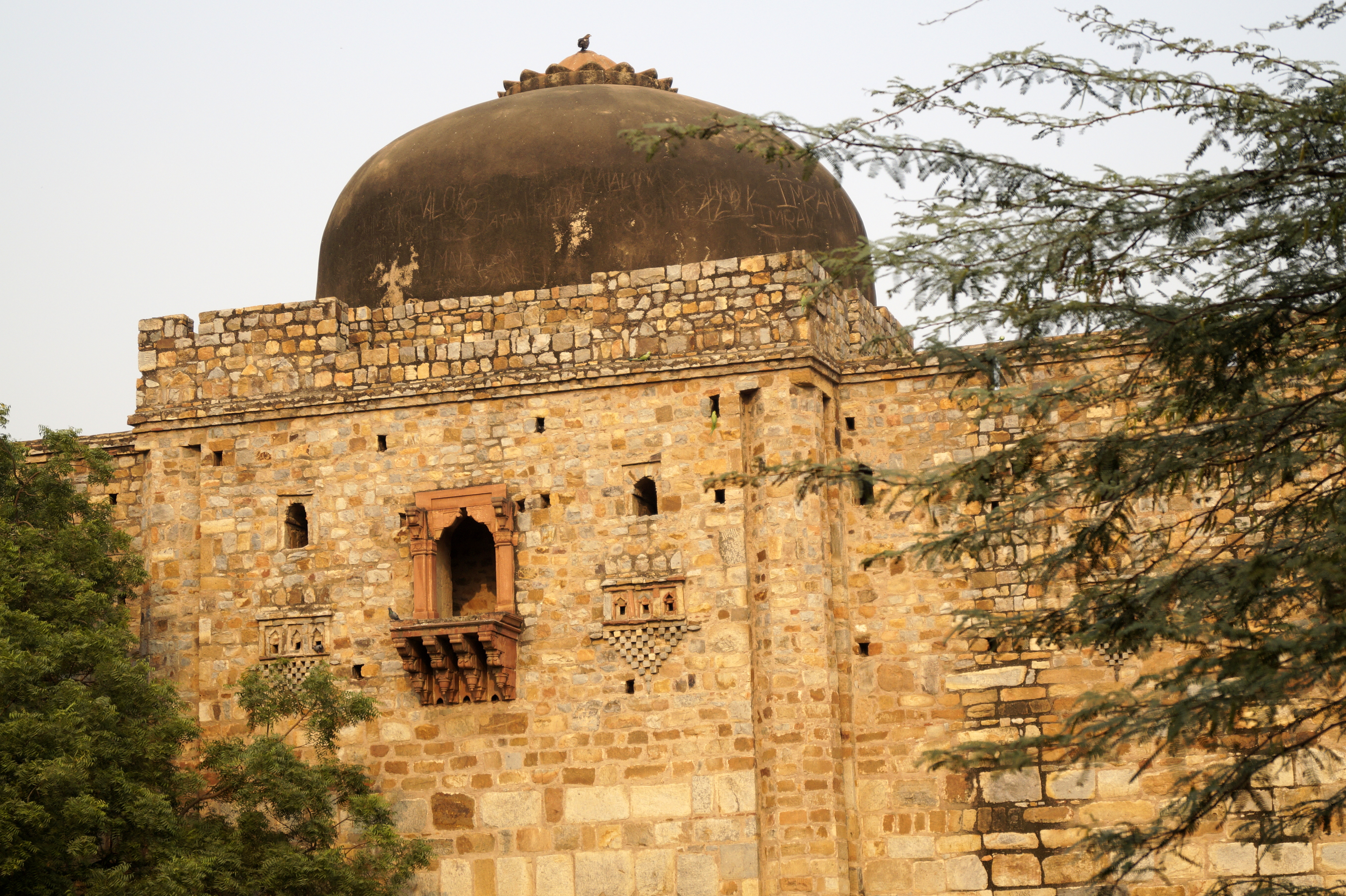 Back side of Jamali Kamali Mosque and Tomb, New Delhi, India